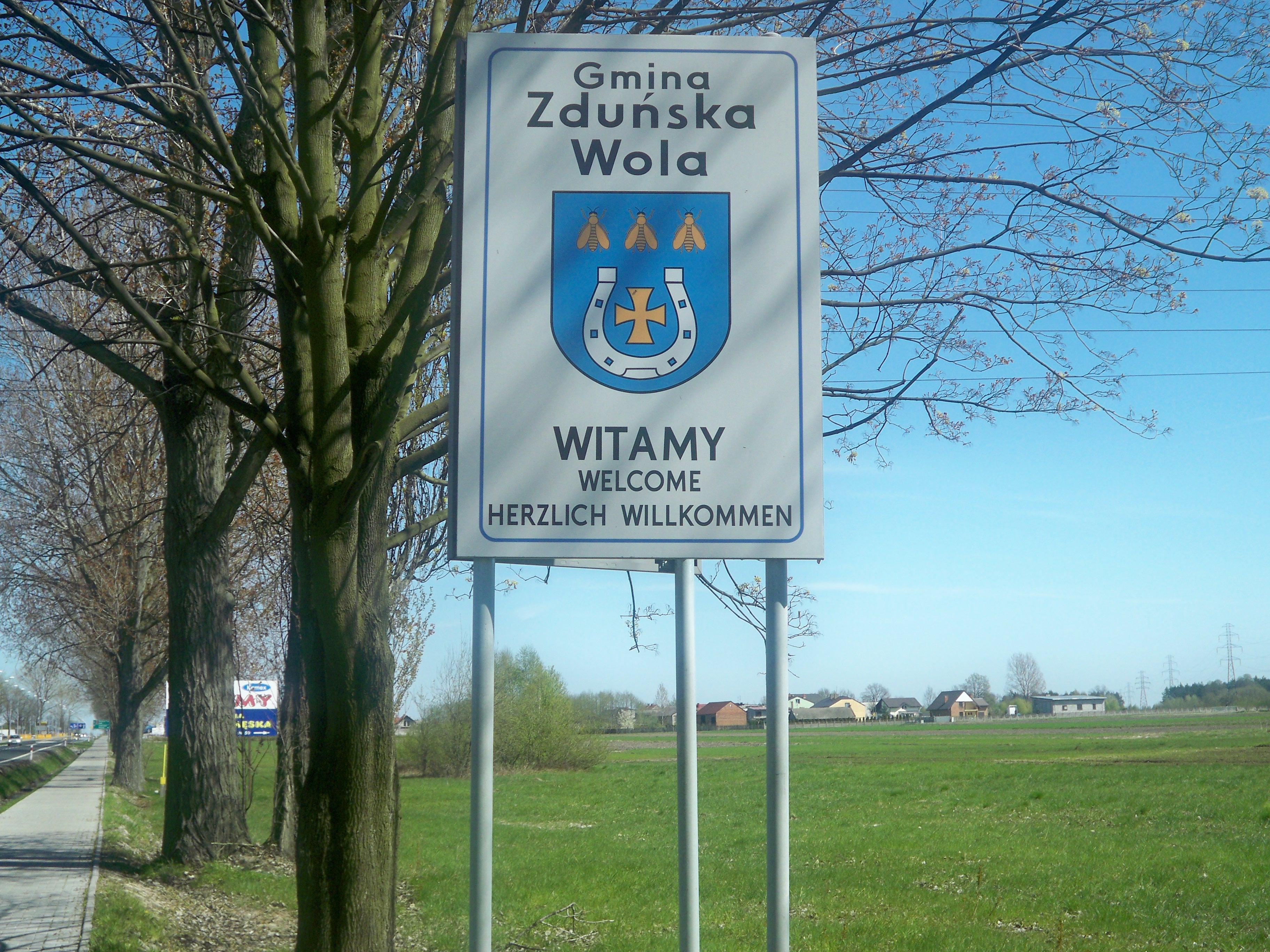 My photo